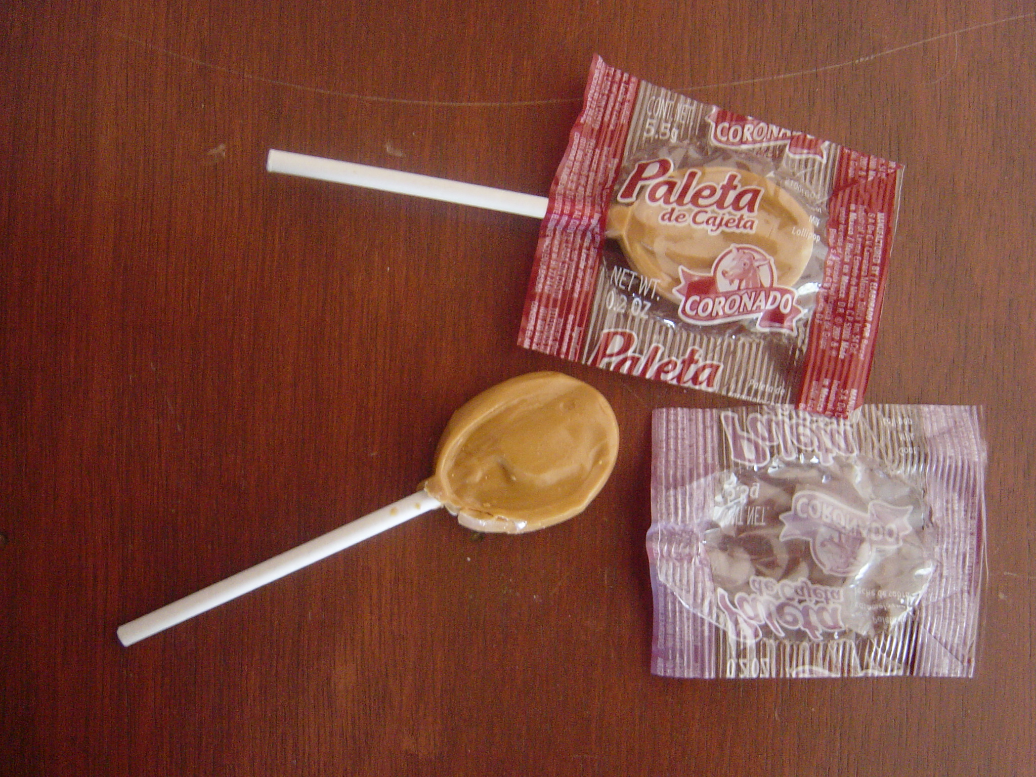 Cajeta´s lollipop